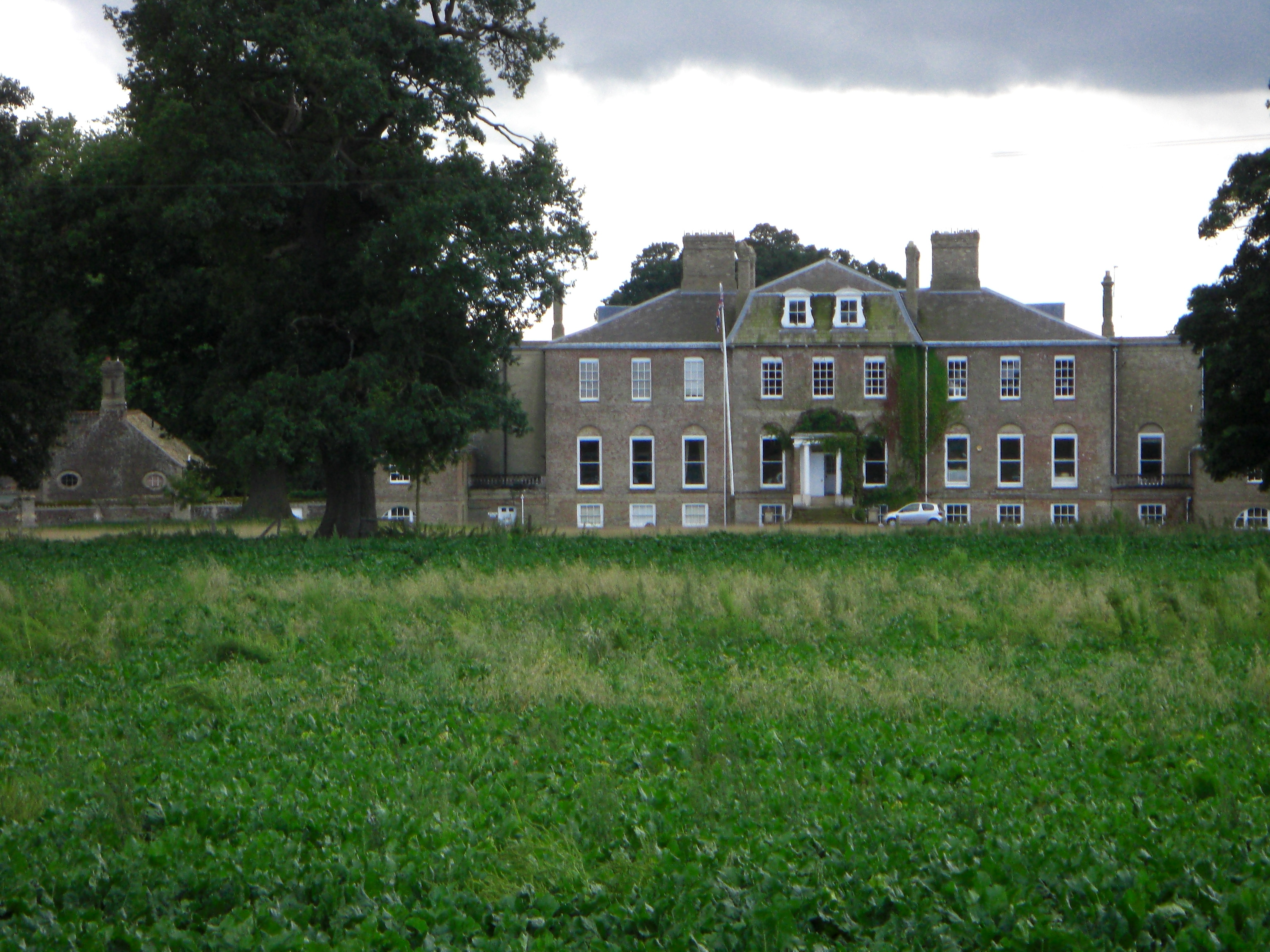 Ryston Hall, near Downham Market, Norfolk, England. Designed by Sir Roger Pratt as his own home, and later altered by Sir John Soane.